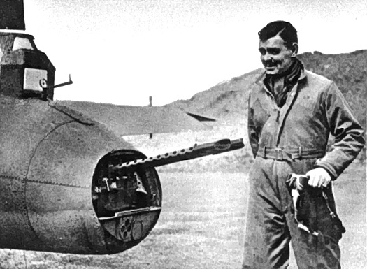 Clark Gable with 8th AF in Britain, ILN 1943/06/12 Quelle: Public Domain